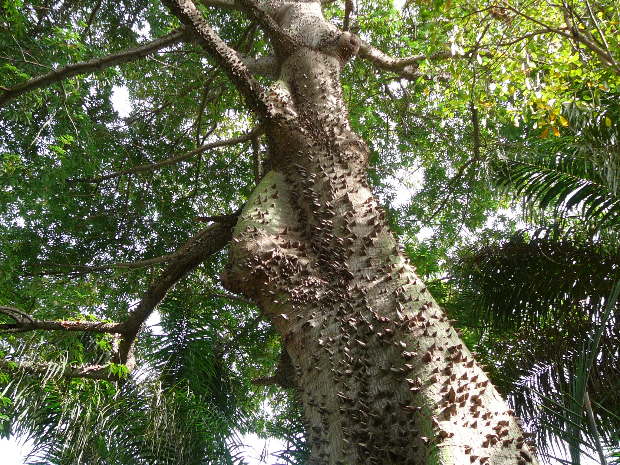 White-flowered silk cotton tree